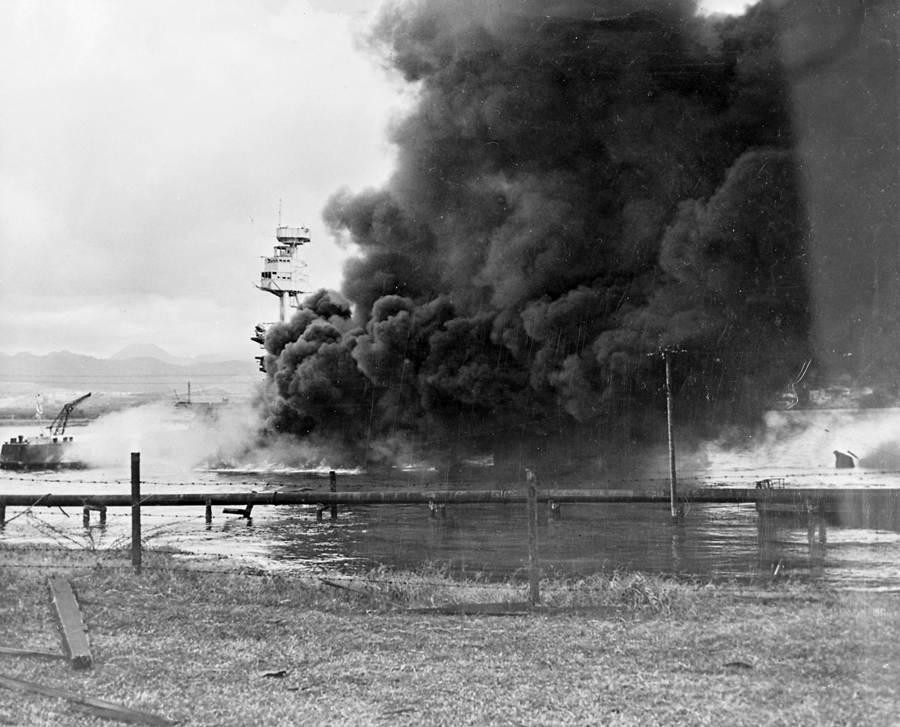 Pearl Harbor attack- stern and rear mast of USS Nevada (BB-36) visible at left from behind dense smoke of the burning oil from the USS Arizona (BB-39). Nevada has just initiated her escape attempt from Pearl Harbor.